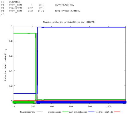 trans